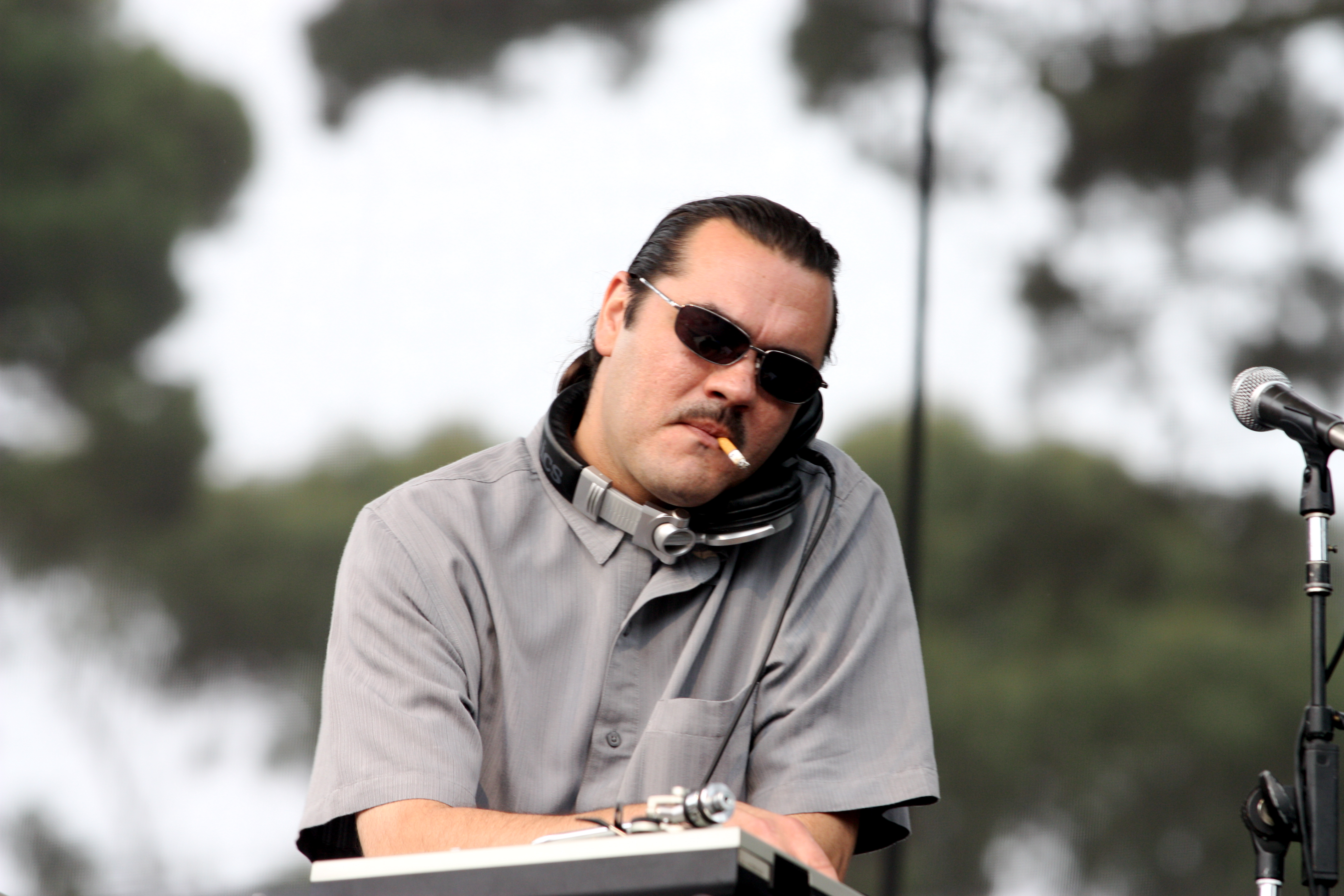 Ant from the band Atmosphere at Outside Lands 2009